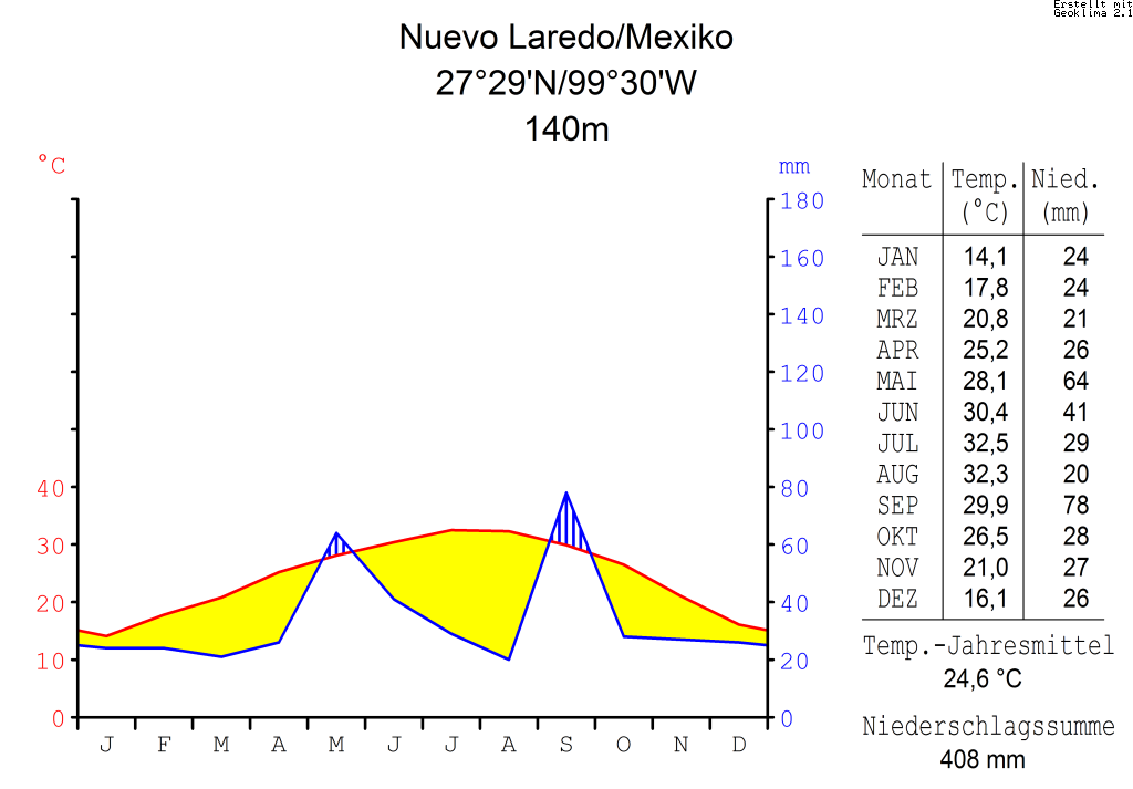 climate chart in the format by Walther and Lieth, metric, °Celsisus and millimeters, made with Geoklima 2.1